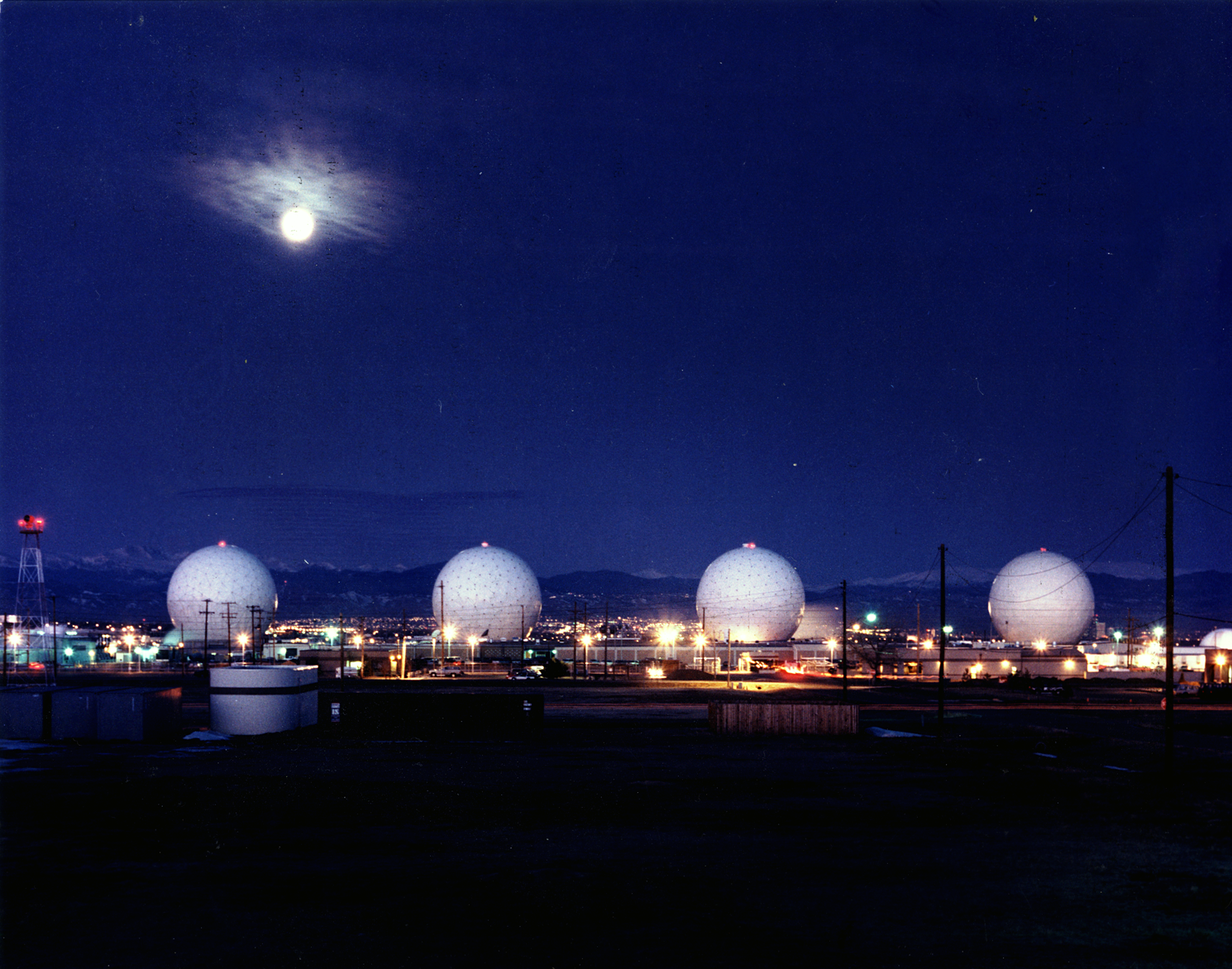 Buckley AFB, looking west with the Colorado Rockies in background. Denver is in foreground.